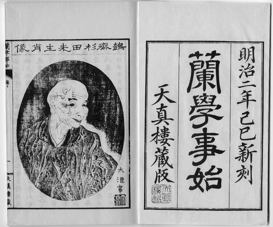 Title and frontispiece of Sugita Isai [= Gempaku]: Rangakukoto hajime. 1869